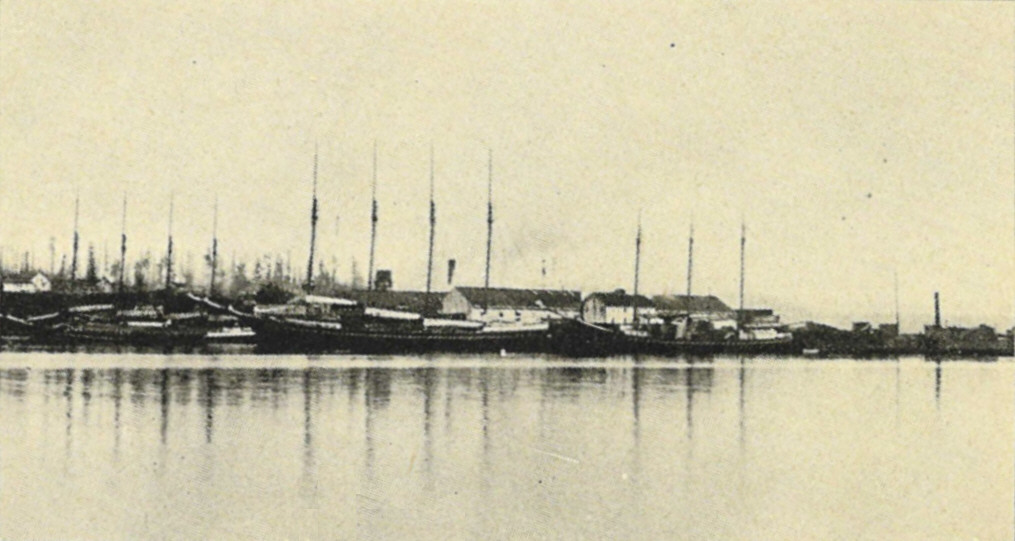 "Port Gamble" (one of a group of pictures collectively captioned collectively captioned "The Puget Lumber Co.'s two big mills—the upper one at Port Gamble and the lower one at Port Ludlow") from brochure Seattle and the Orient (1900). This was somewhat "cleaned up" to deal with where two images overlap on the original page.